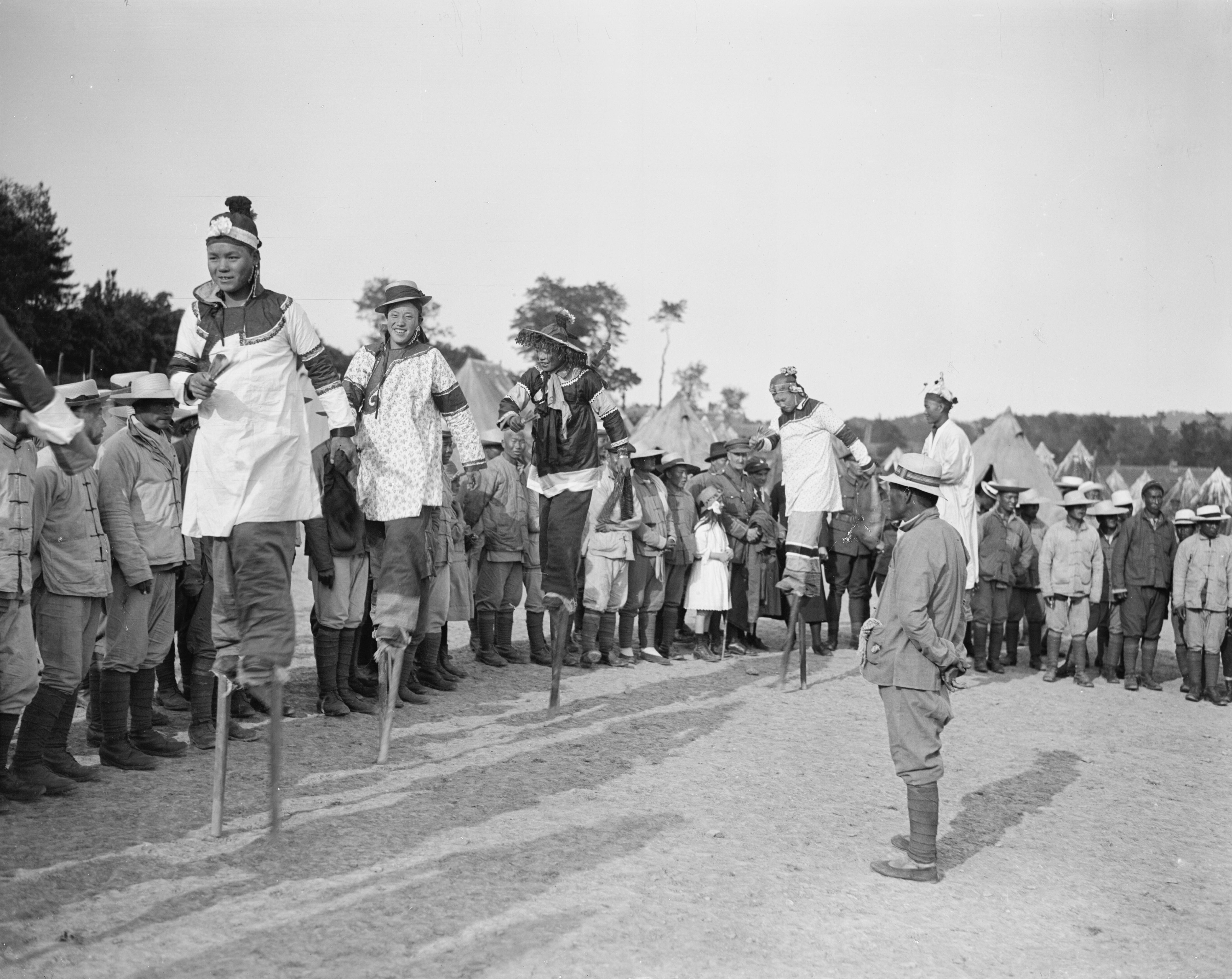 The Chinese Labour Corps on the Western Front, 1916-1918 Chinese stilt-walkers entertaining an audience of British and American soldiers, local inhabitants and Chinese workers at their camp at Samer, 26 May 1918.